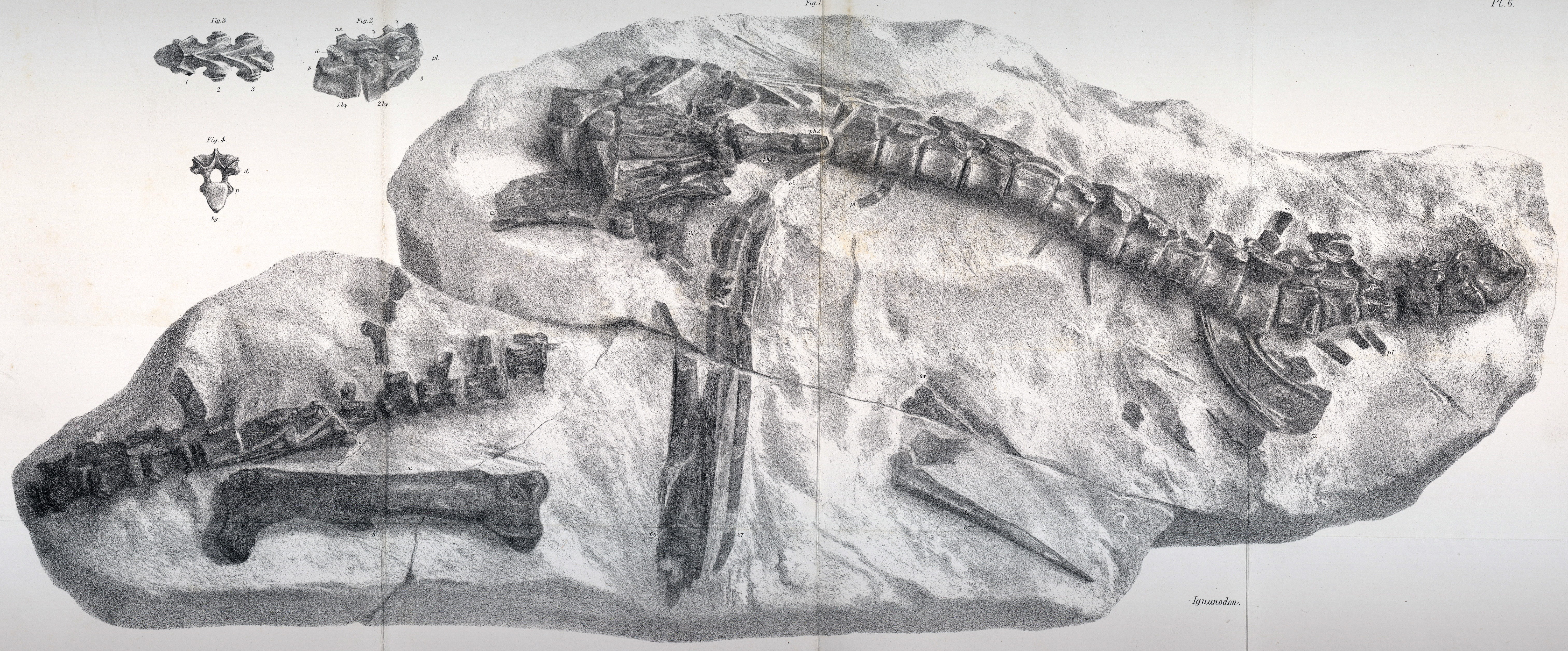 Hypsilophodon foxii specimens NHM 28707, 39560-1. Original description: Chief part of the vertebral column, with some bones of the extremities, of a young Iguanodon; nat. size. From the Wealden of Cowleaze Chine, Isle of Wight. In the British Museum, and that of J. S. Bowerbank, Esq., F.R.S.